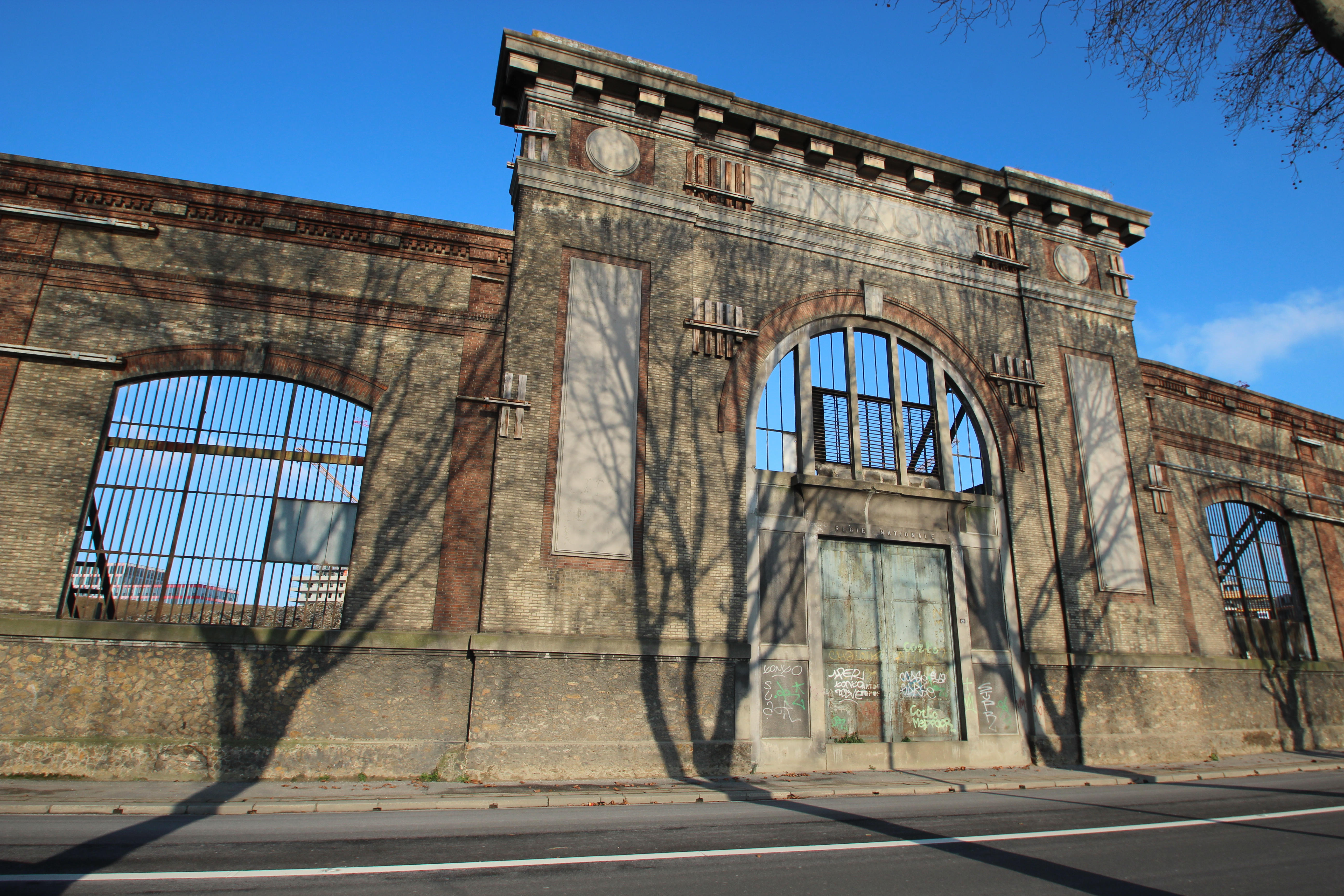 Portal of the former Renault factory located Quai Georges Gorse in Boulogne-Billancourt, France. Object location48° 49′ 23.96″ N, 2° 14′ 25.53″ E